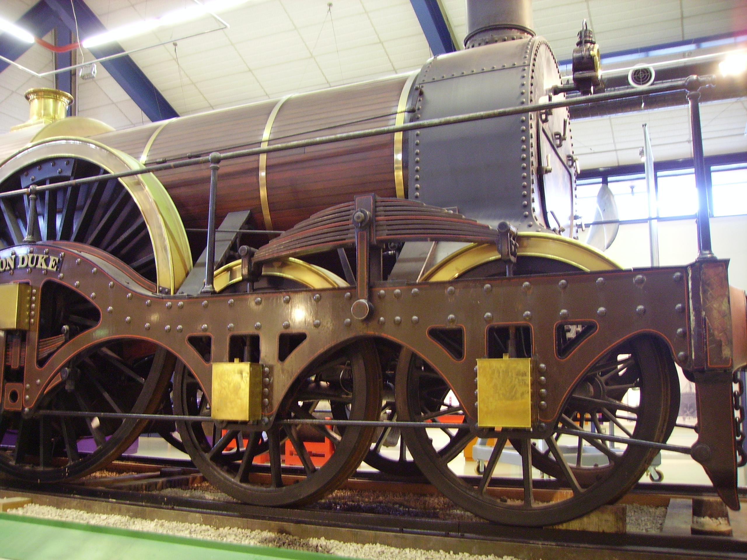 Photographer: User:Ballista